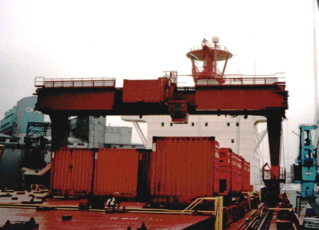 Portalkran auf einem Containerschiff